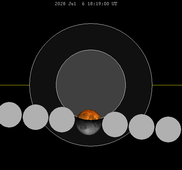 July 2028 lunar eclipse chart of moon's total lunar eclipse path through the earth's shadow. thumb